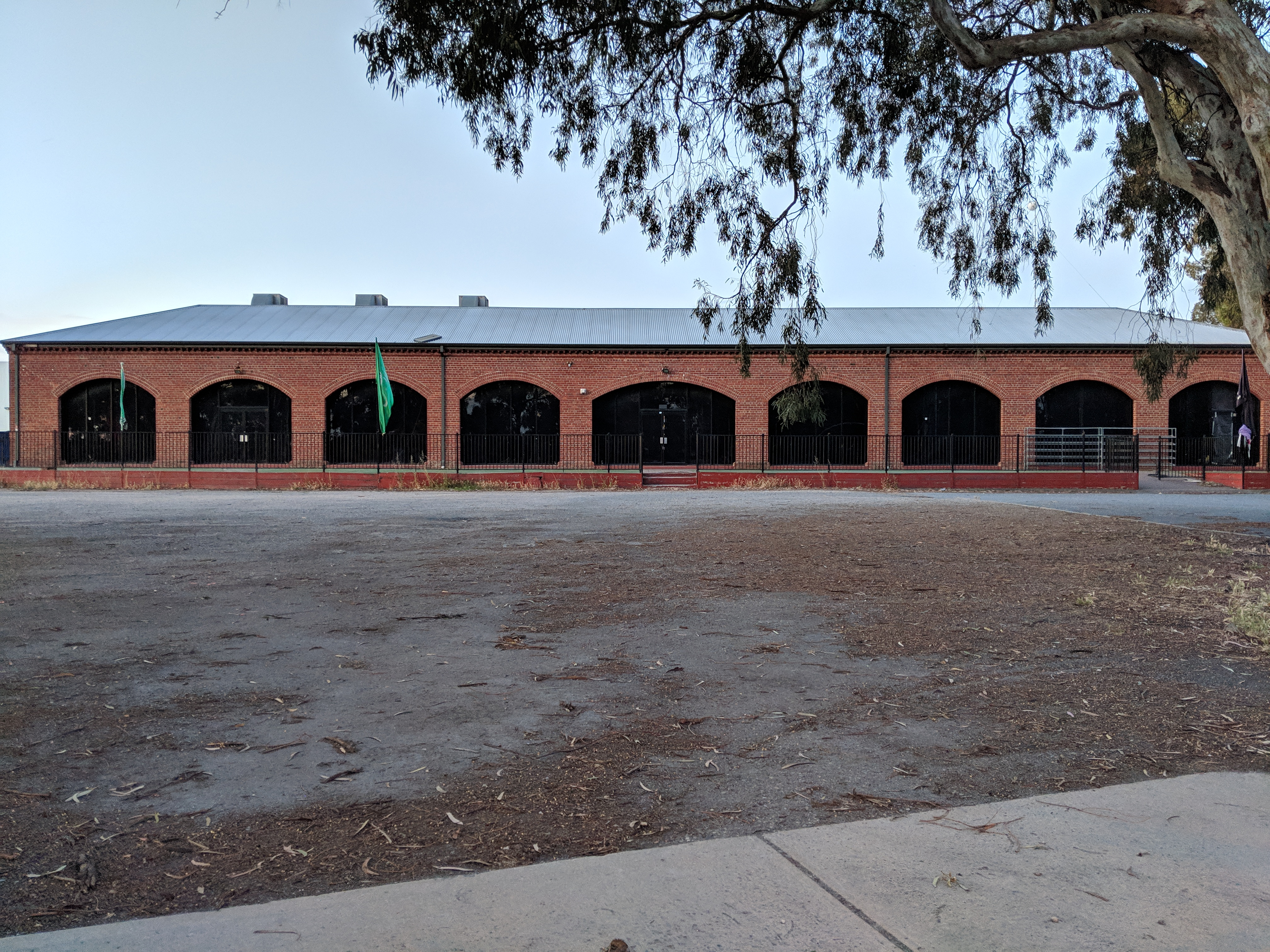 Formerly the straining shed of Islington Sewage Farm, Regency Park, South Australia